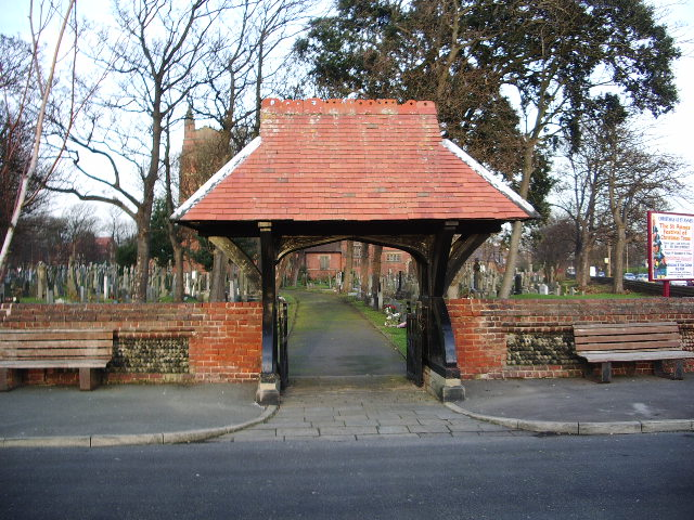 St Annes Parish Church, Lychgate